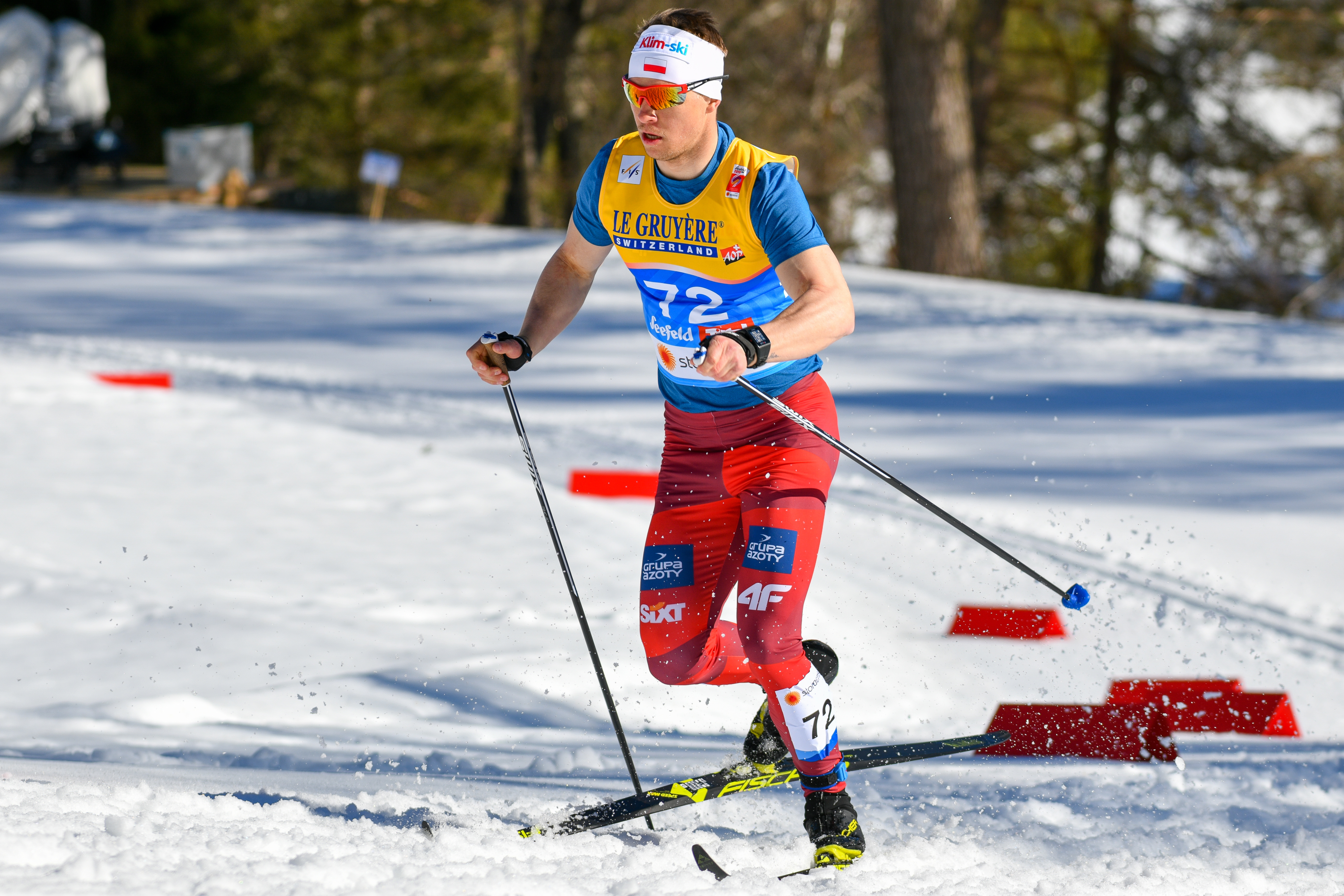 FIS Nordic Wolrd Ski Championships Seefeld 2019 - Men 15km Interval Start Classic. Picture shows Maciej Starega (POL).